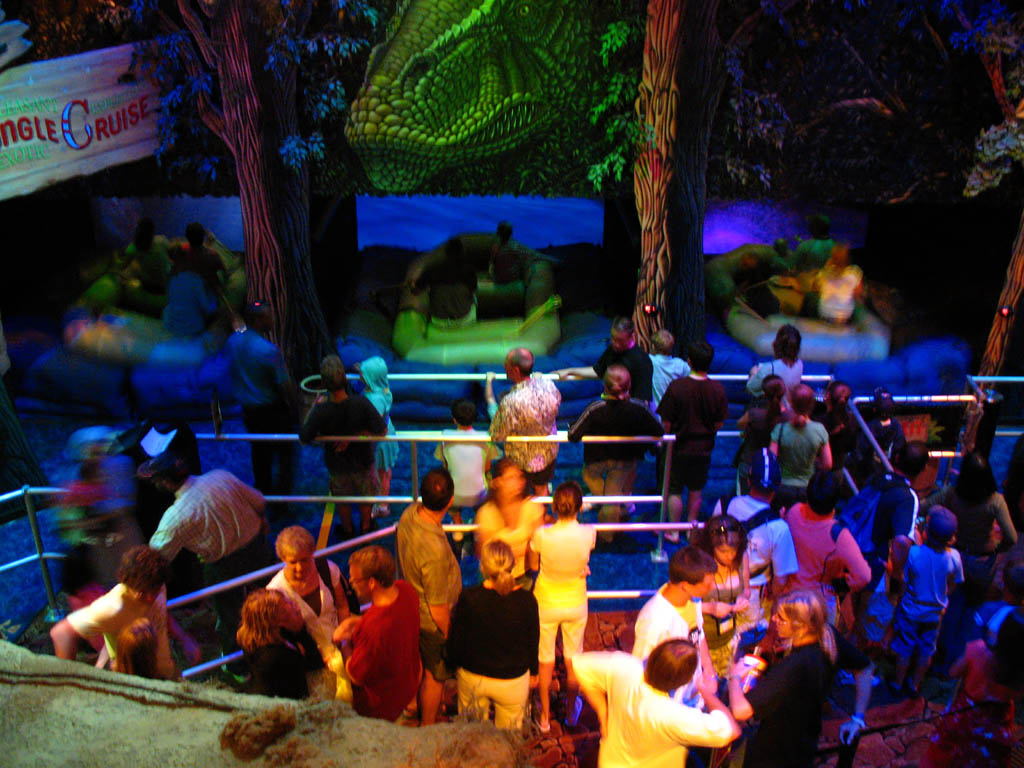 Virtual Jungle Cruise at DisneyQuest. Taken June 2007